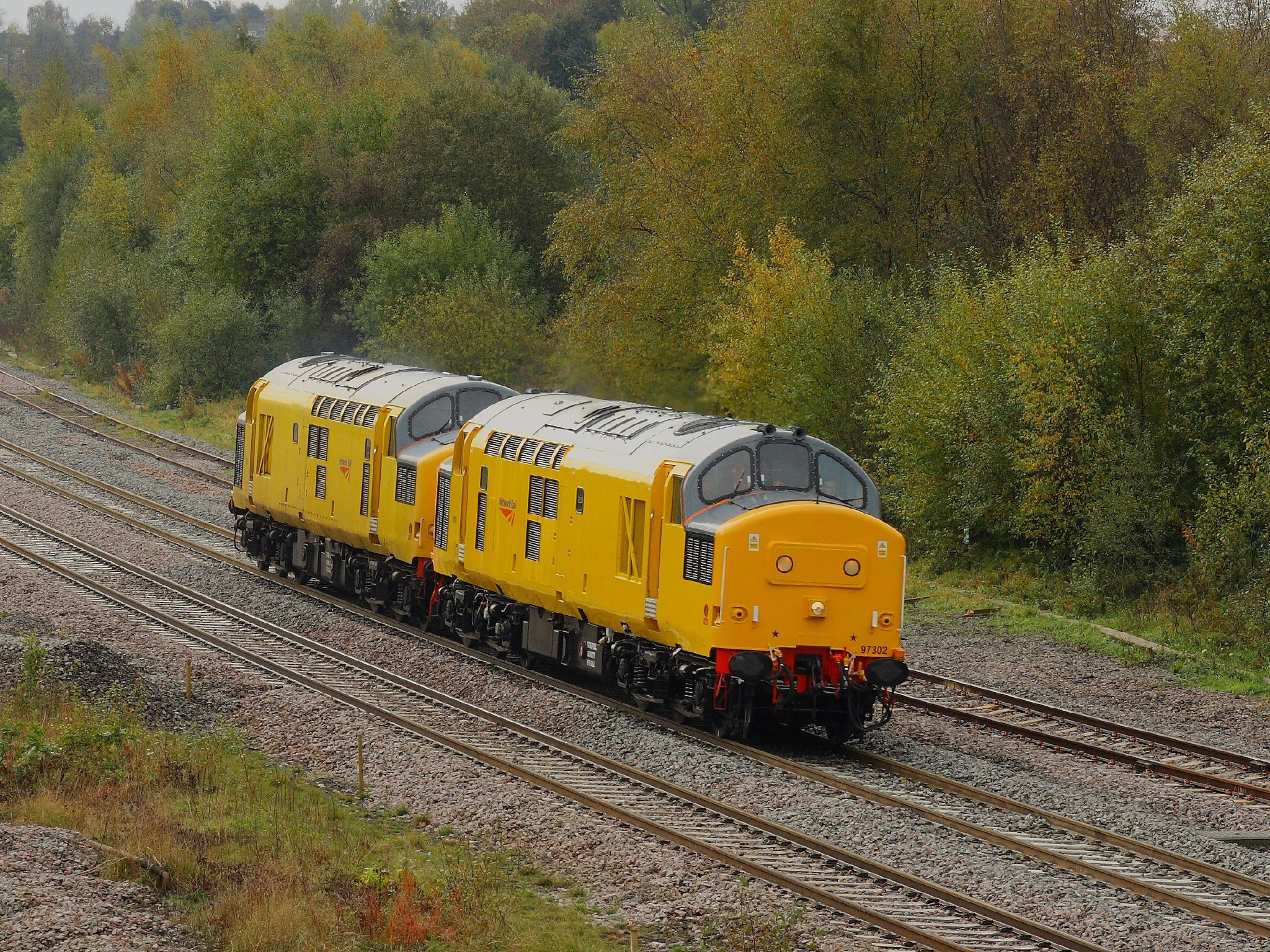 97301 & 97302 Claycross